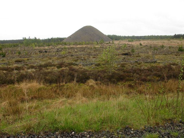 Fauldhouse Moor Bing In an area that is so flat, this heap of industrial spoil is hard to miss.